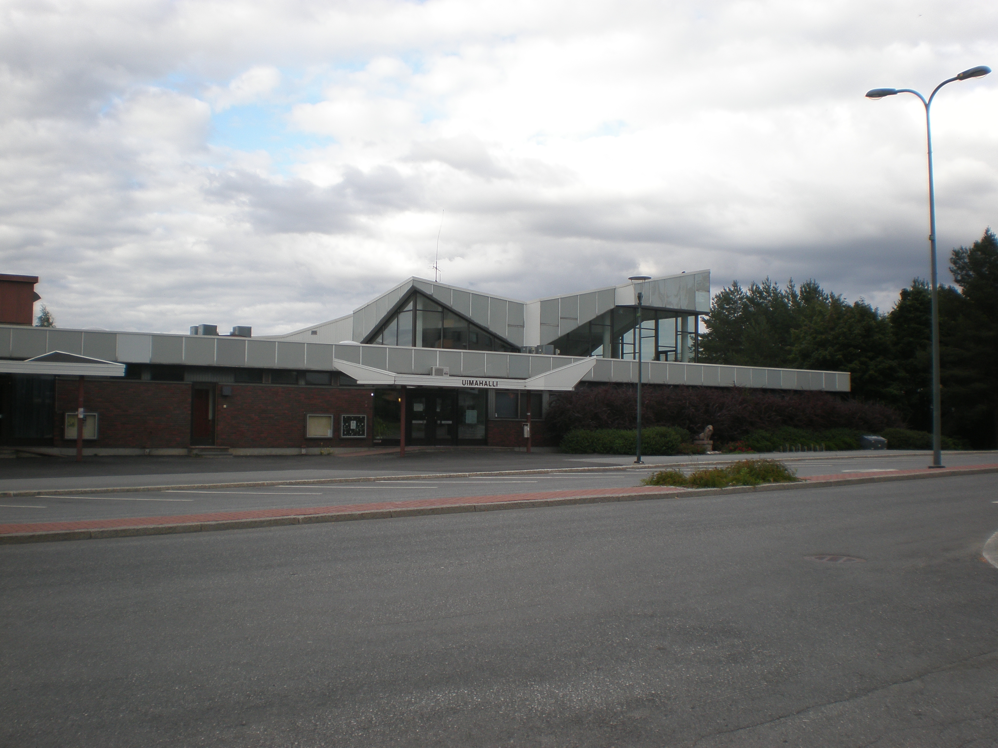 Nokia Swimming Hall